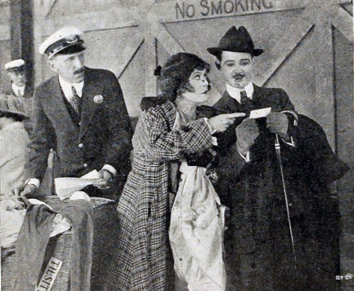 Illustration of an article in The Moving Picture World for the American film The Smugglers (1916).